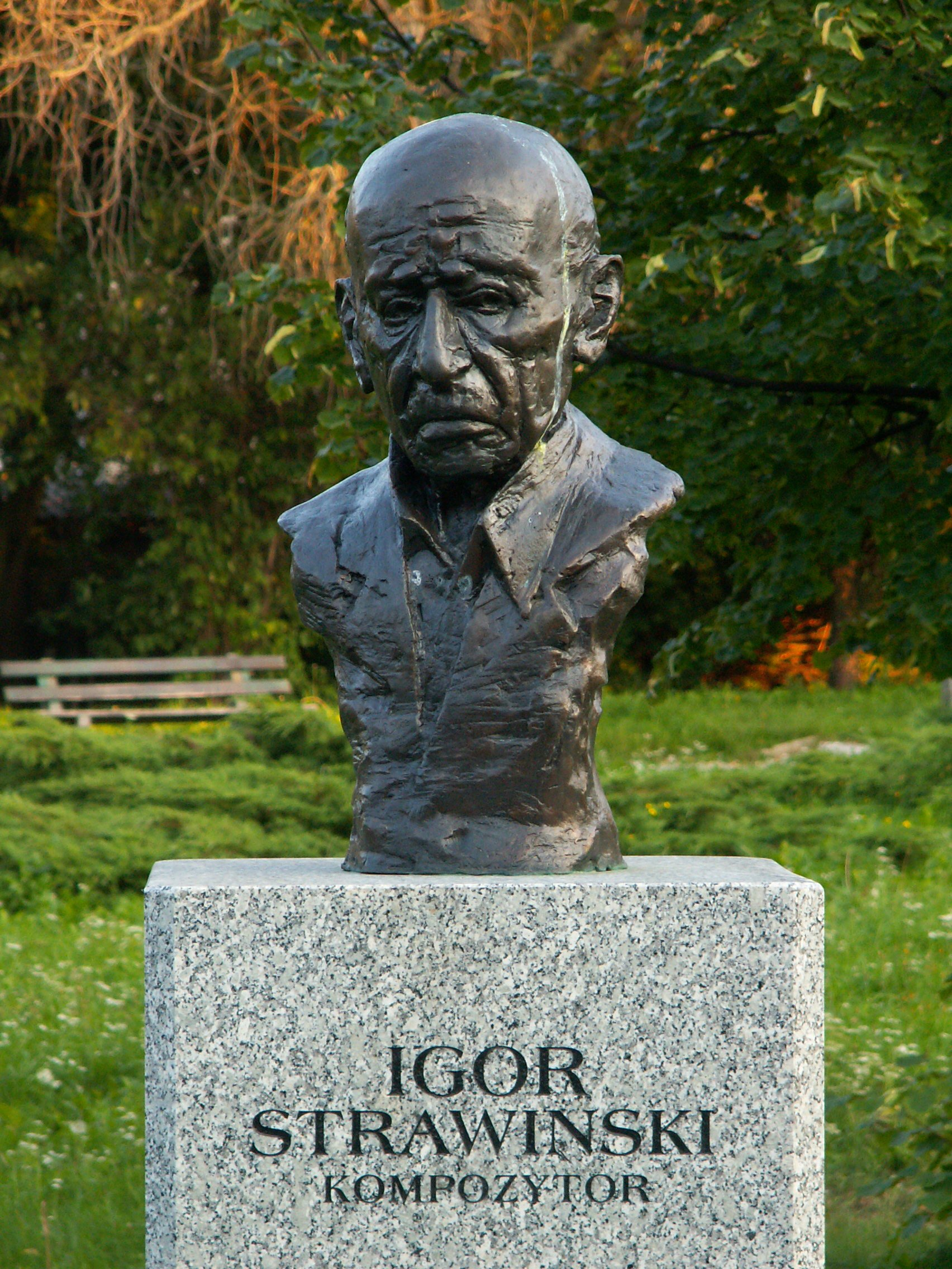 Bust of Igor Stravinsky by Piotr Suliga in Celebrity Alley in Kielce (Poland)